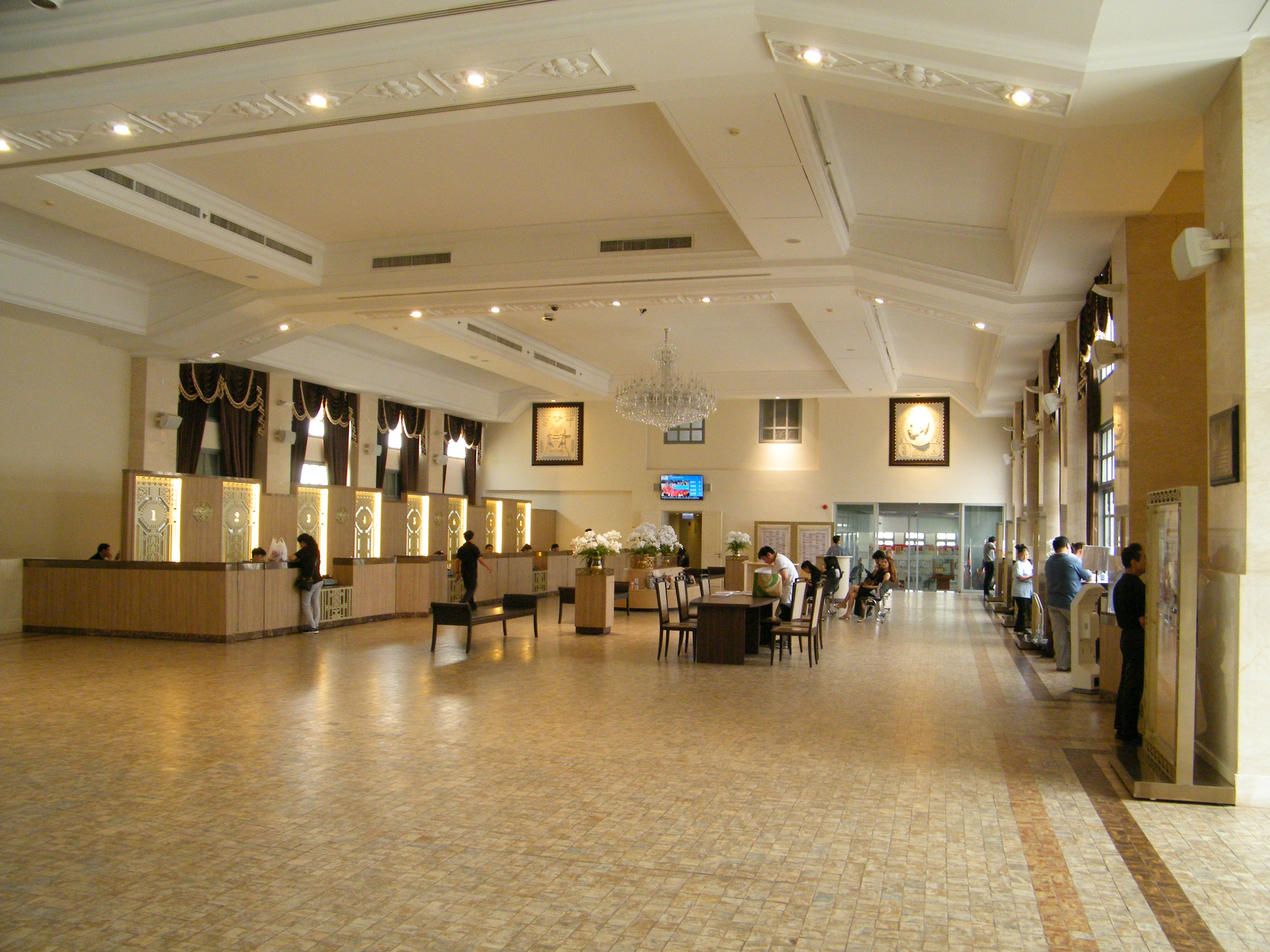 A view of north half of the Postal Heritage Hall, first floor of the Grand Postal Building, showing Thailand Post postal service counters; photographed from the east entrance.